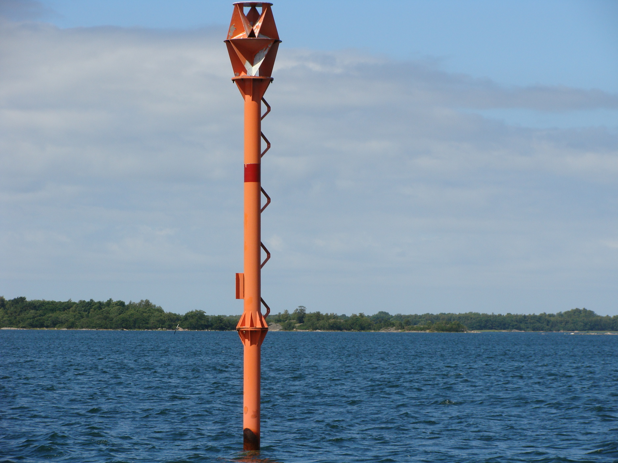 Fixed port hand edge mark with radar reflector on the fairway leading to Jurmo island in northeastern Åland, Archipelago Sea in Finland.